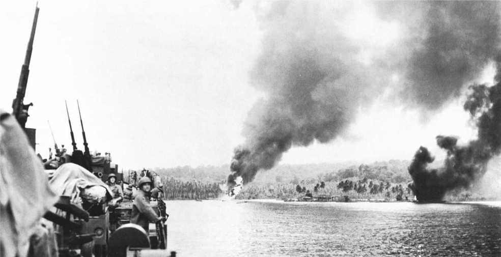 An LST brings the 9th Defense Battalion to Rendova Island, set up its artillery and antiaircraft guns to support the assault where the unit helped overcome Japanese resistance and then on heavily defended neighboring island of New Georgia.